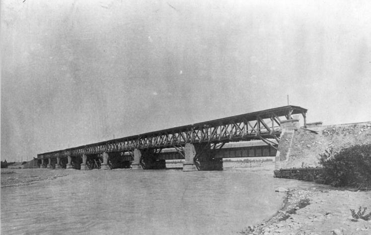 Railroad bridge on the Cachapoal River, Chile.